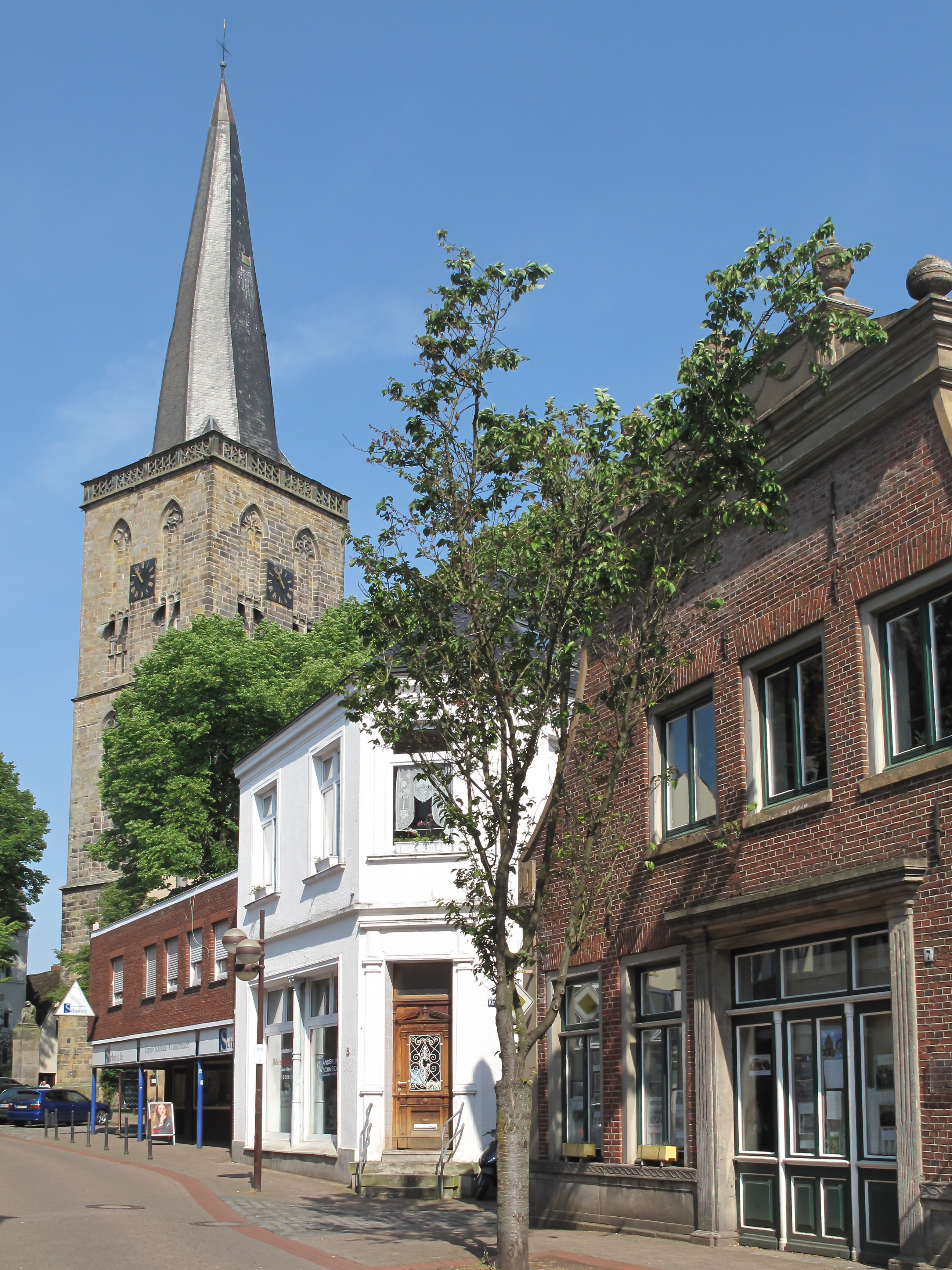 Schüttorf, church in the street